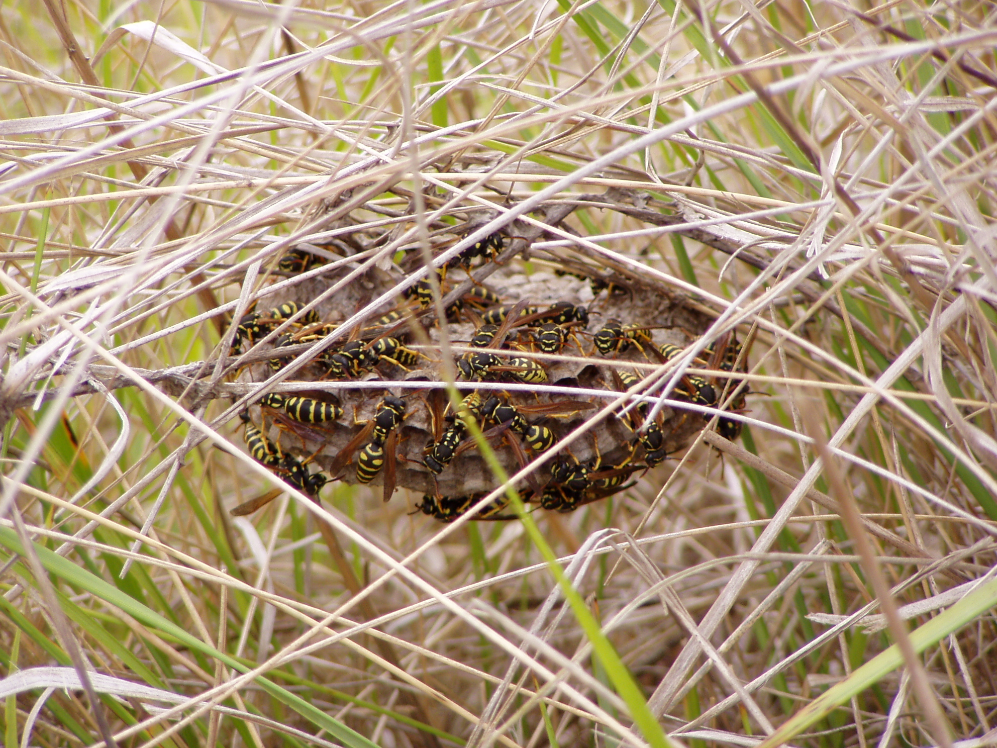 Paper Wasp. Nest. Alcobaça, Portugal.